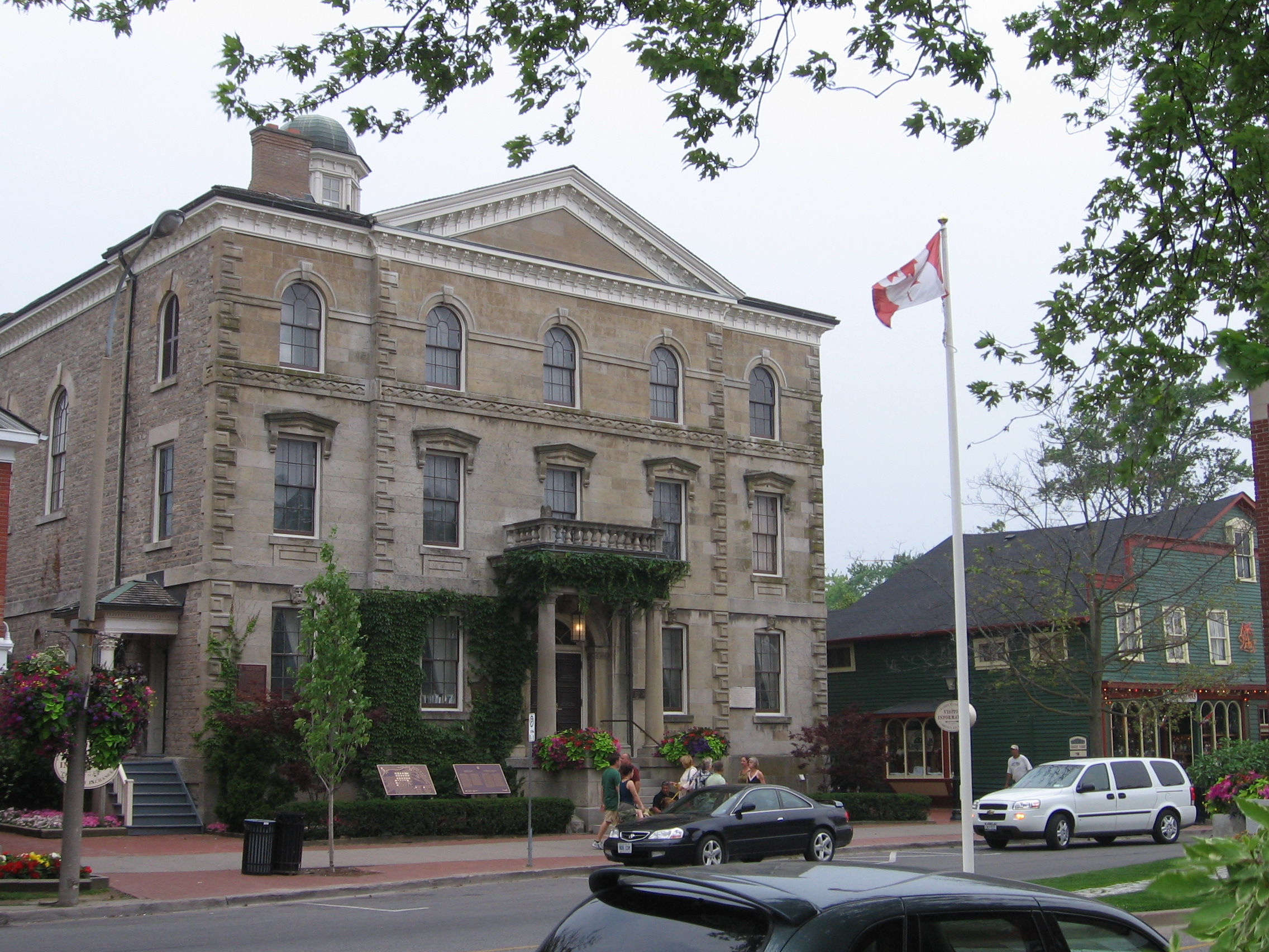 Image created and copyright held by Yoho2001 Toronto, ON. If used, please attribute the image as such.